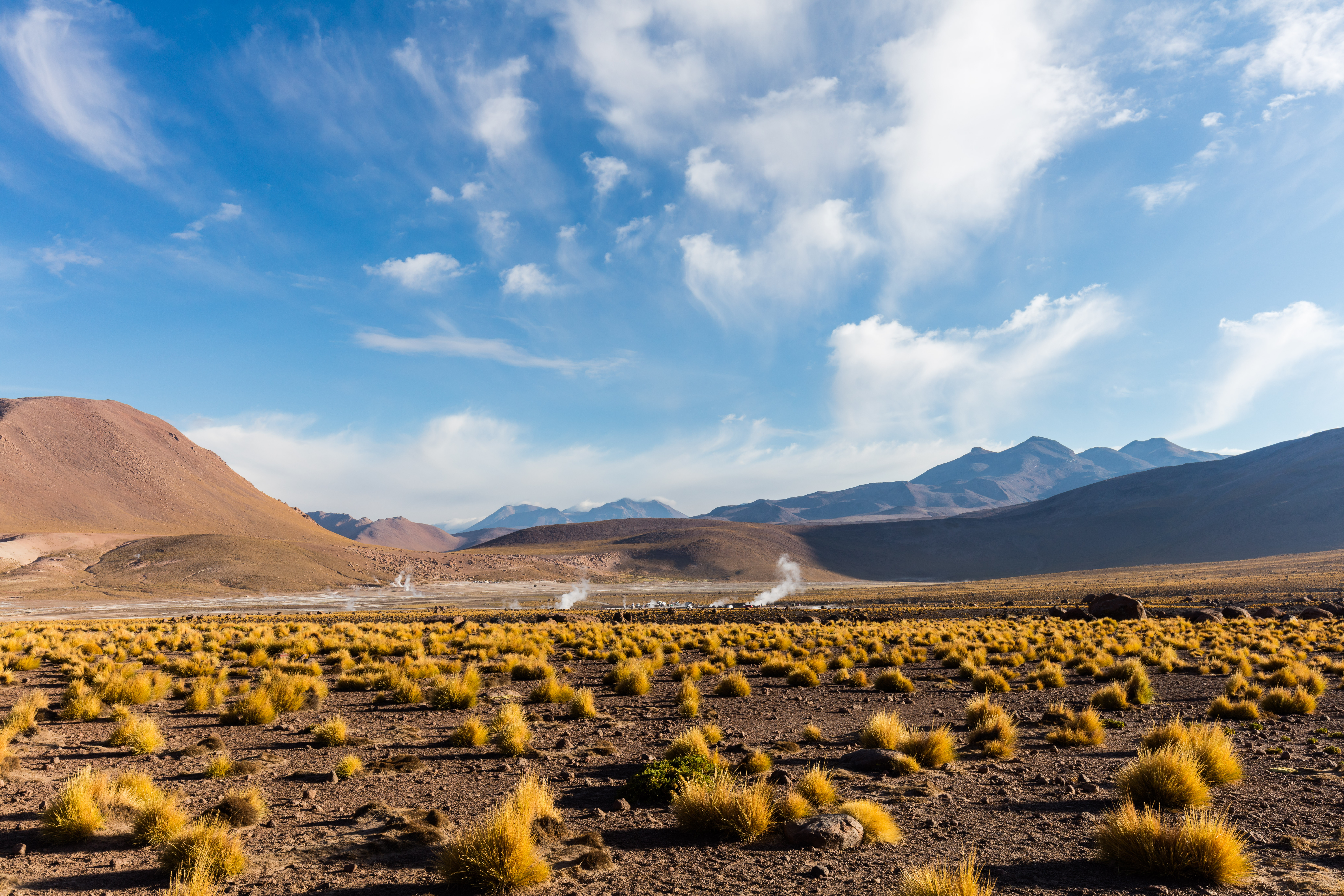 Geysers of Tatio, San Pedro de Atacama, Chile